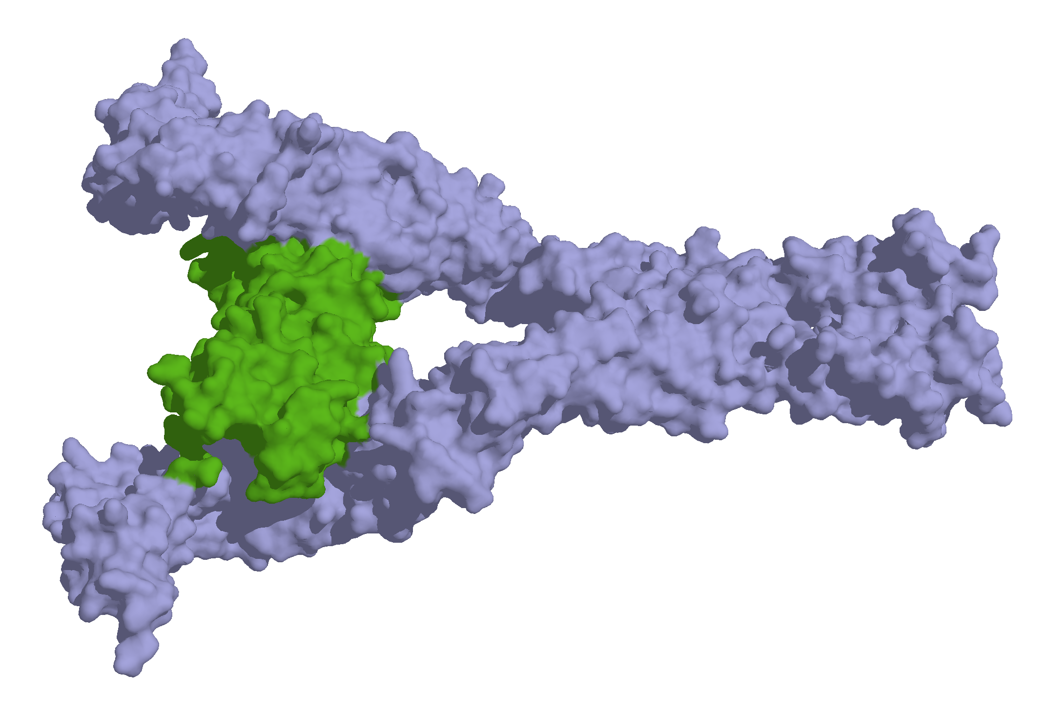 3d surface model of mast/stem cell growth factor (SCF, green) dimer complexed with its receptor from PDB 2E9W. Ref.: S.Yuzawa et al. (2007). Structural basis for activation of the receptor tyrosine kinase KIT by stem cell factor.. Cell, 130, 323-334. PMID 17662946 [